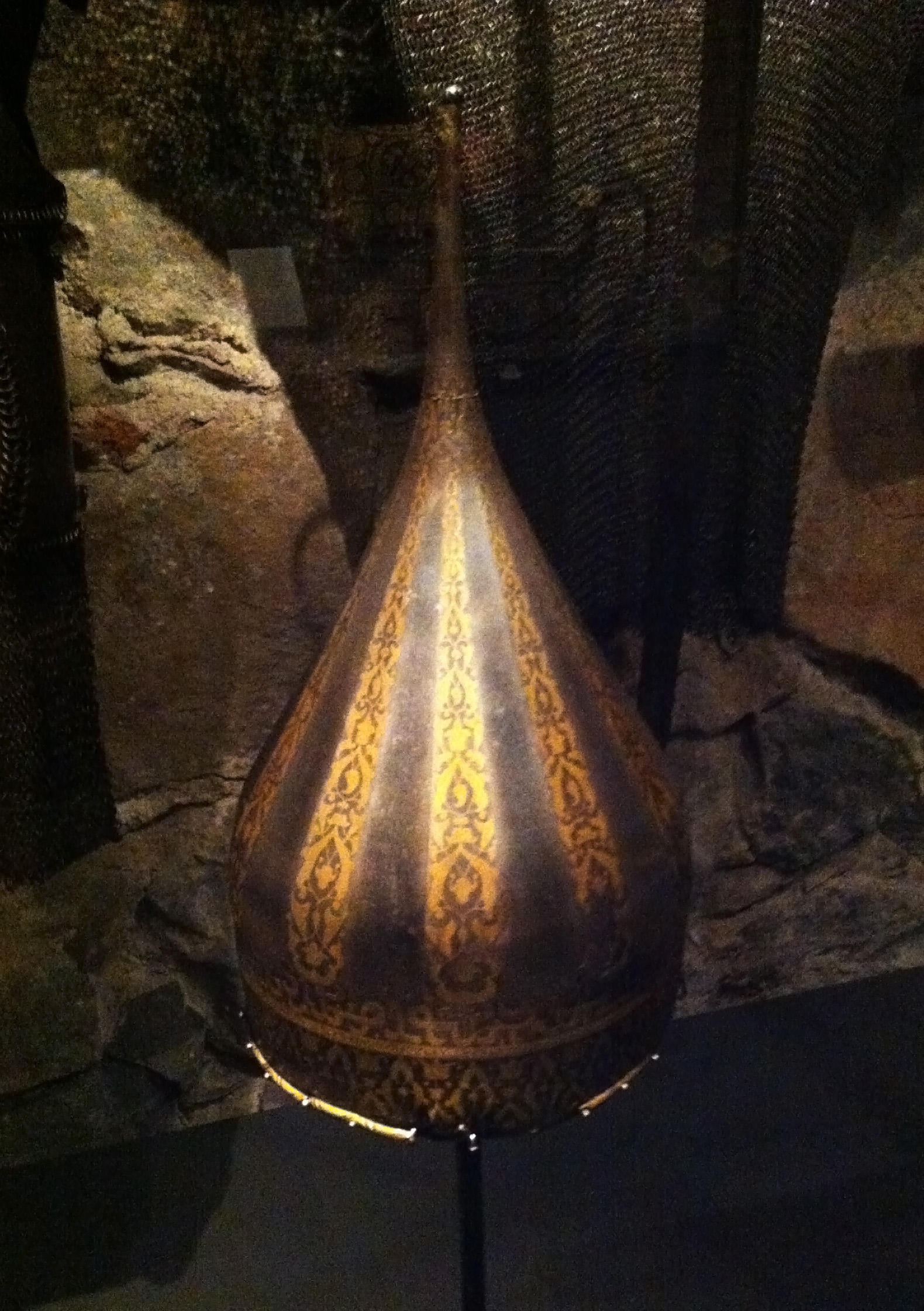 Tsar Ivans helmet, inventory number 20389, The Royal Armoury, Stockholm, Sweden